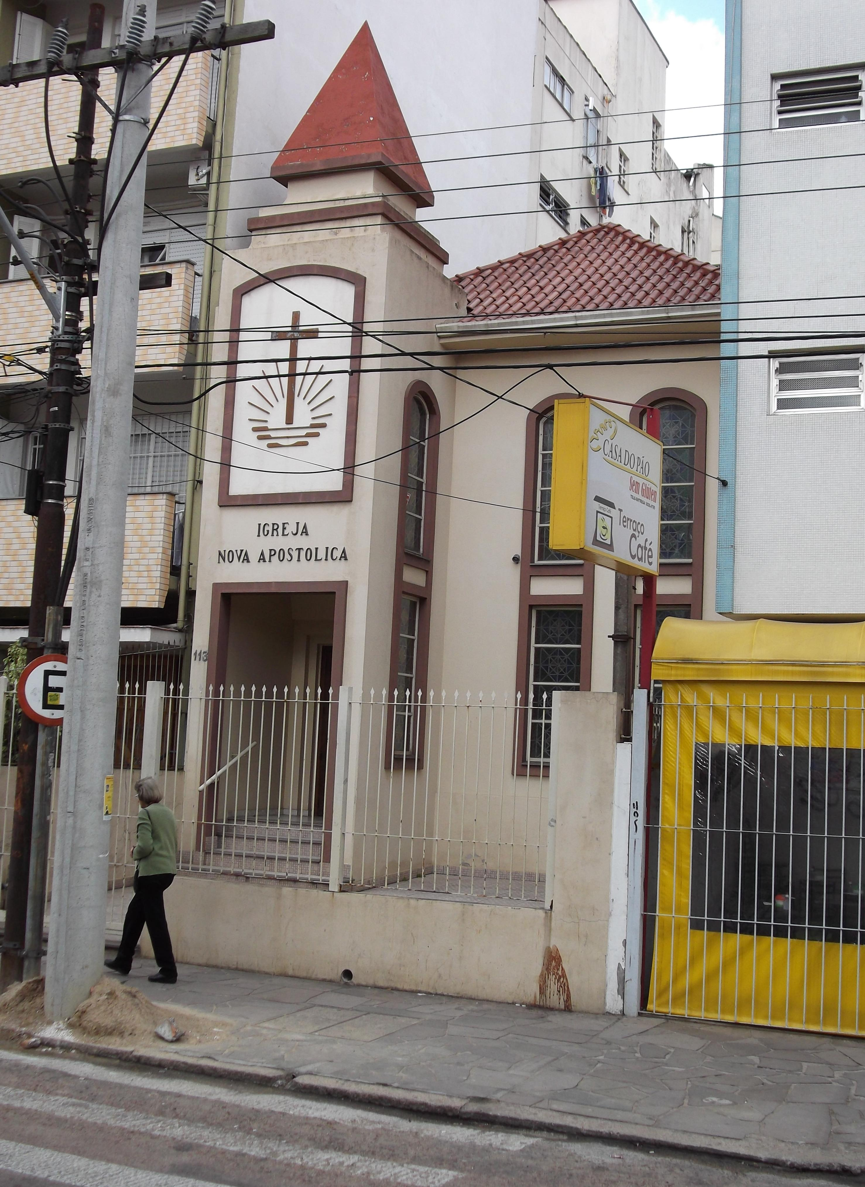 New Apostolic Church, Porto Alegre, Rio Grande do Sul, Brazil